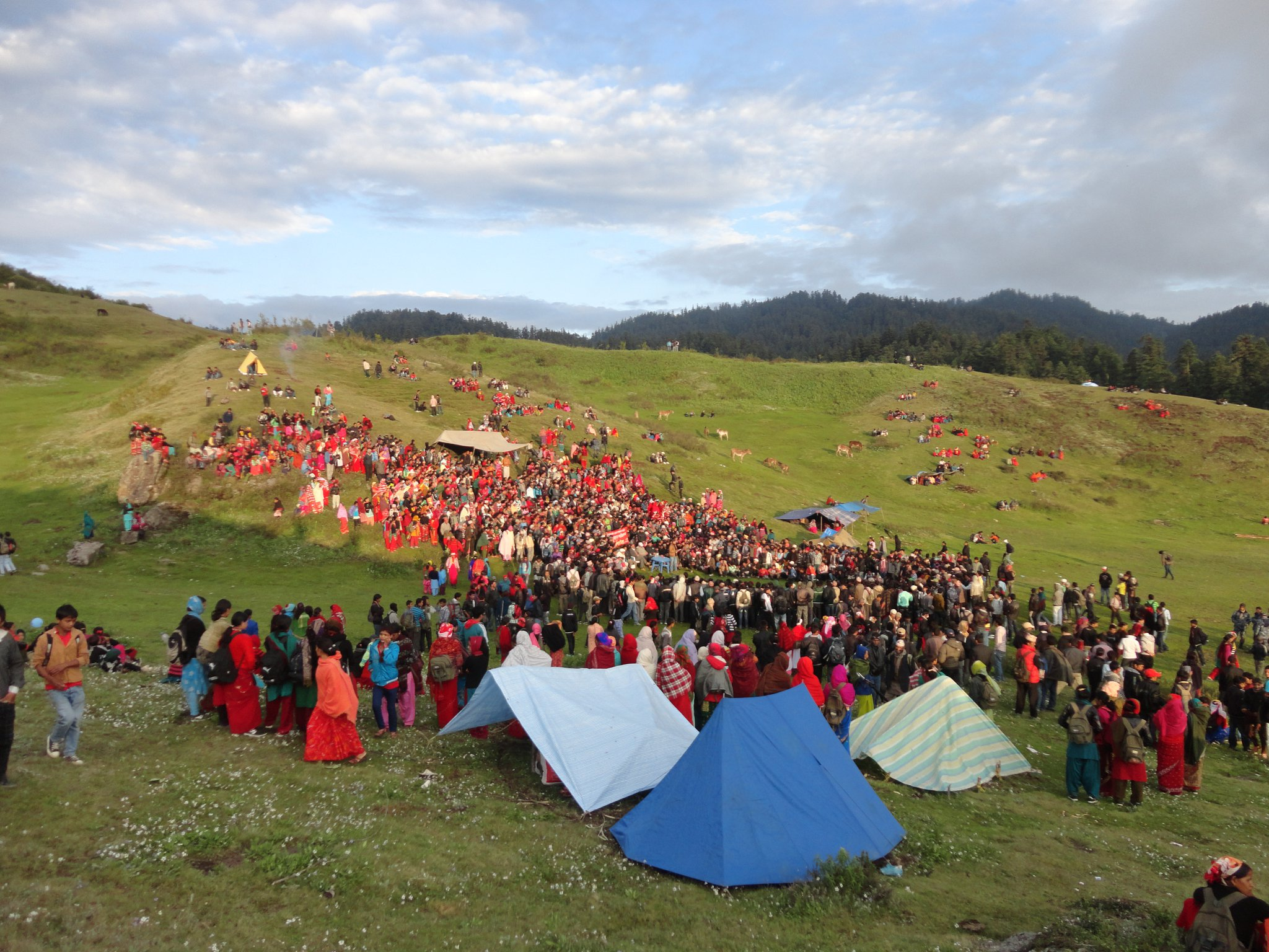 Gangadashahara mela at khaptad.